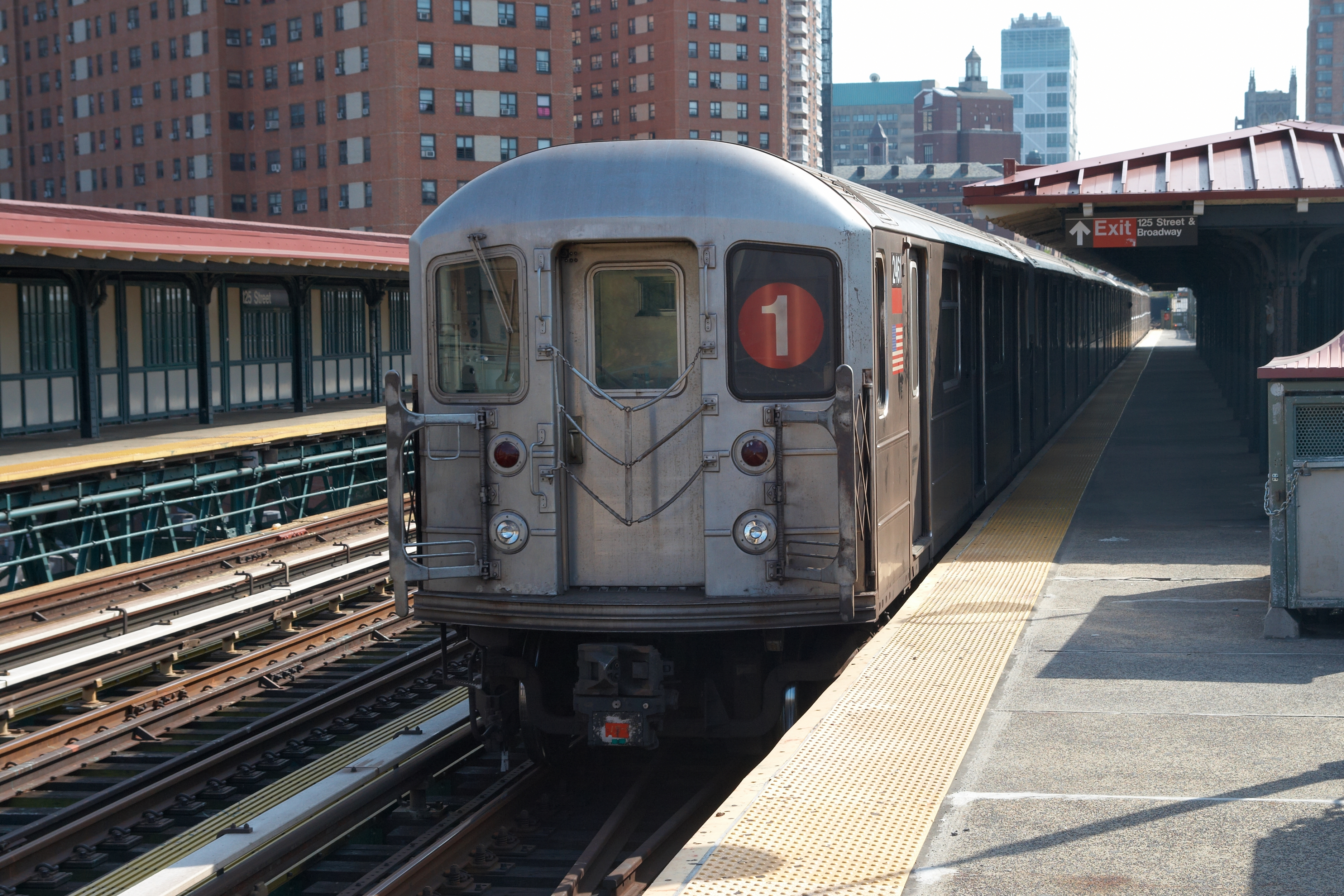 A southbound R62A 1 train on the IRT Broadway line of the New York City Subway standing at the 125th Street station.